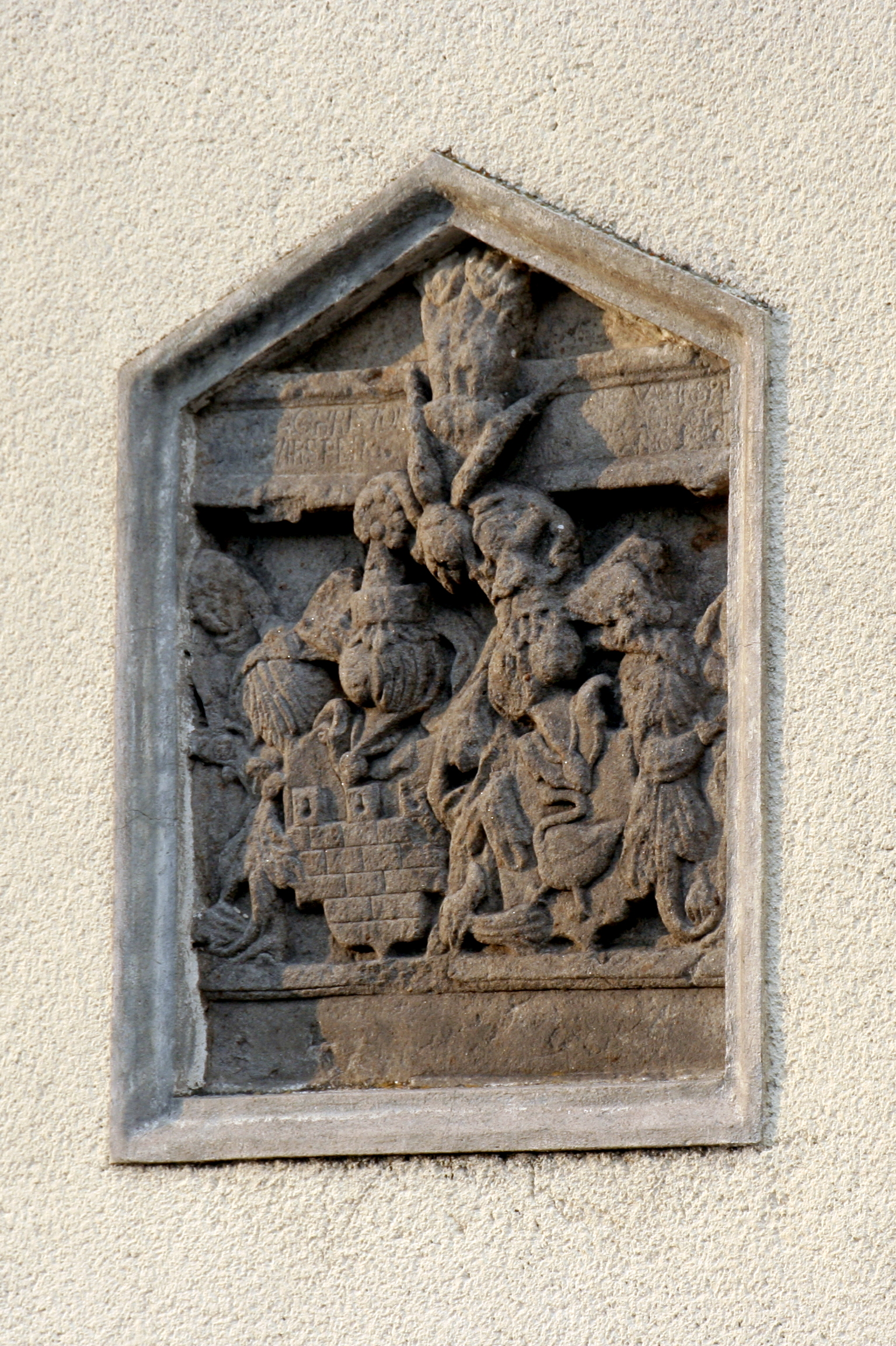 Monument; Germany; Bavaria; Upper Palatinate; administrative district Neustadt. a.d.Waldnaab, Waldthurn emblem plaque (D-3-74-165-9)This is a photograph of an architectural monument.